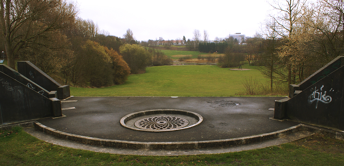 Roskilde Ring Park in Roskilde, Denmark, established in a former motorsport race track, named Roskilde Ring